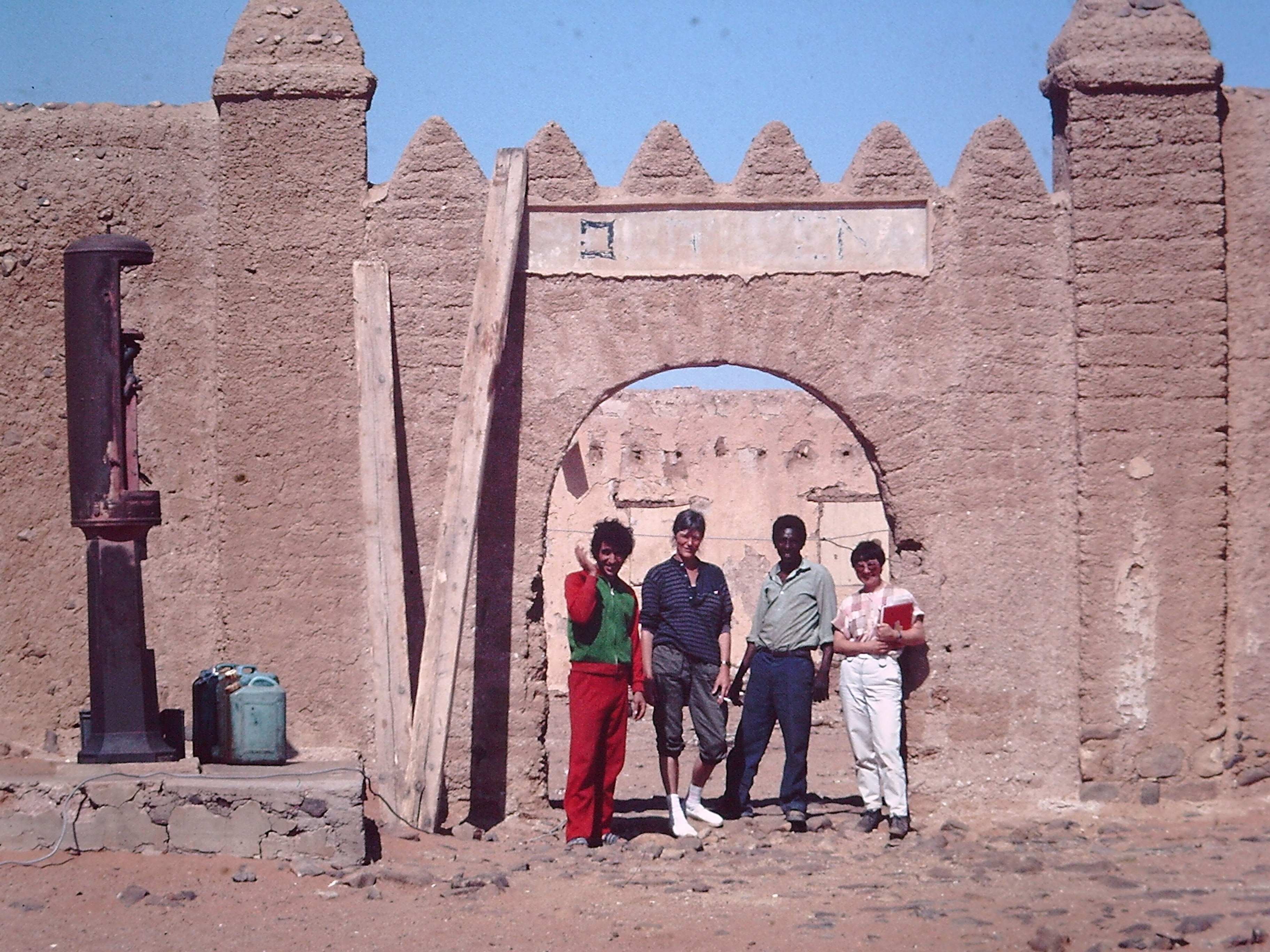 Entrance of Bordj Quallen, Jan. 16/1986